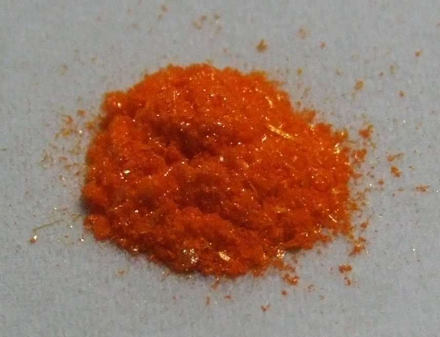 photograph of tetracene crystals